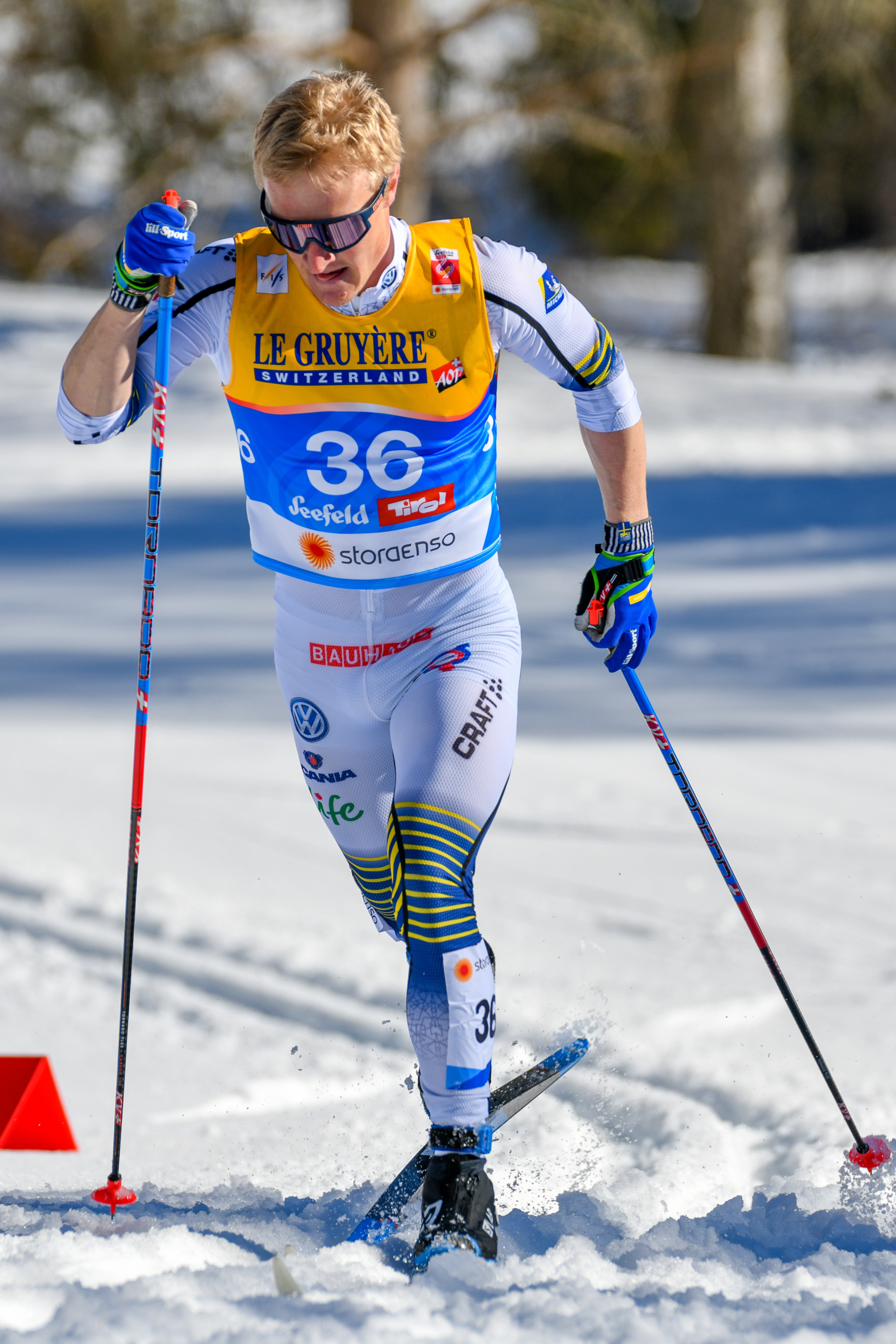 FIS Nordic Wolrd Ski Championships Seefeld 2019 - Men 15km Interval Start Classic. Picture shows Jens Burman (SWE).